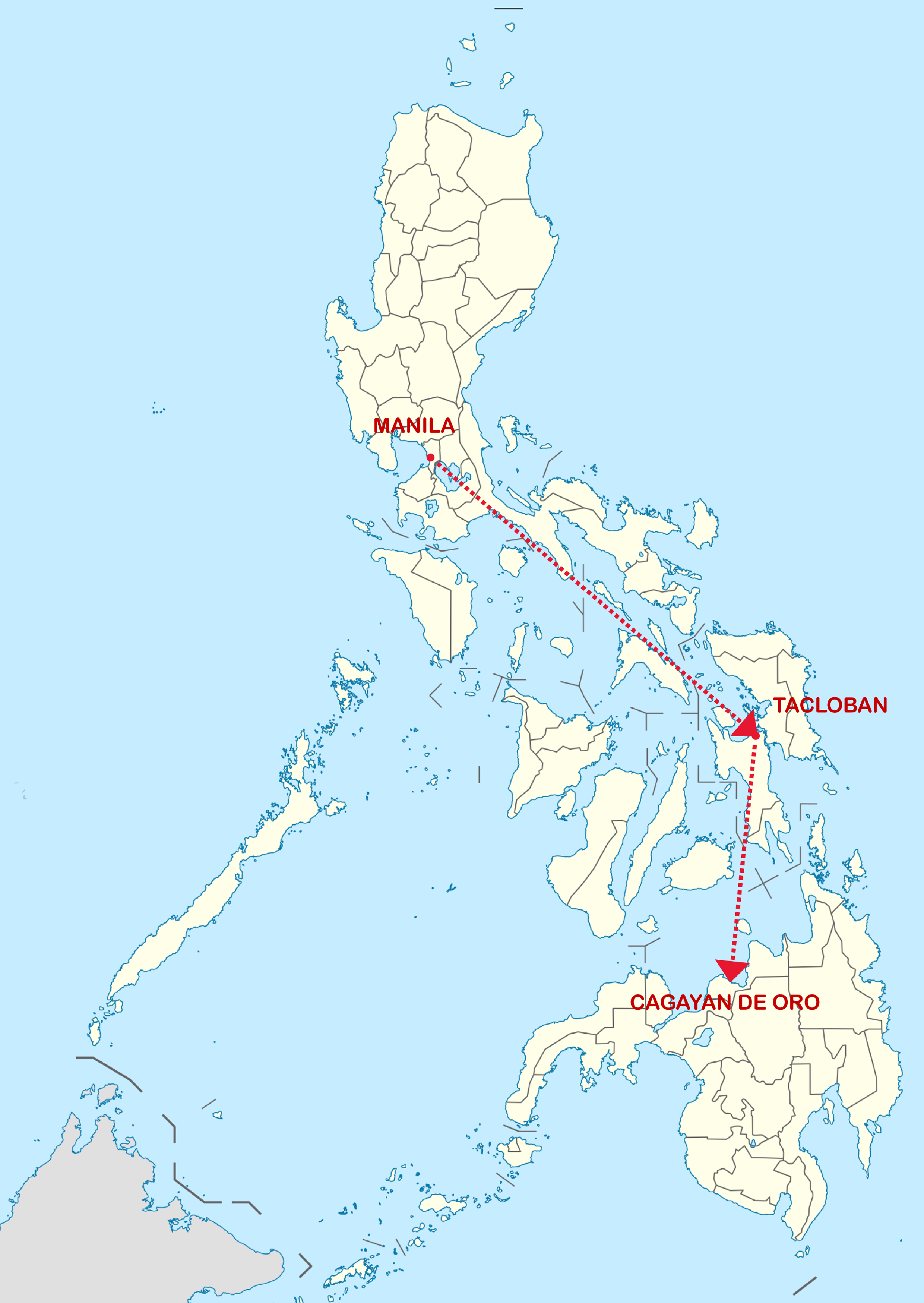 Route of flight Cebu Pacific 387 crashed February, 2th 1998